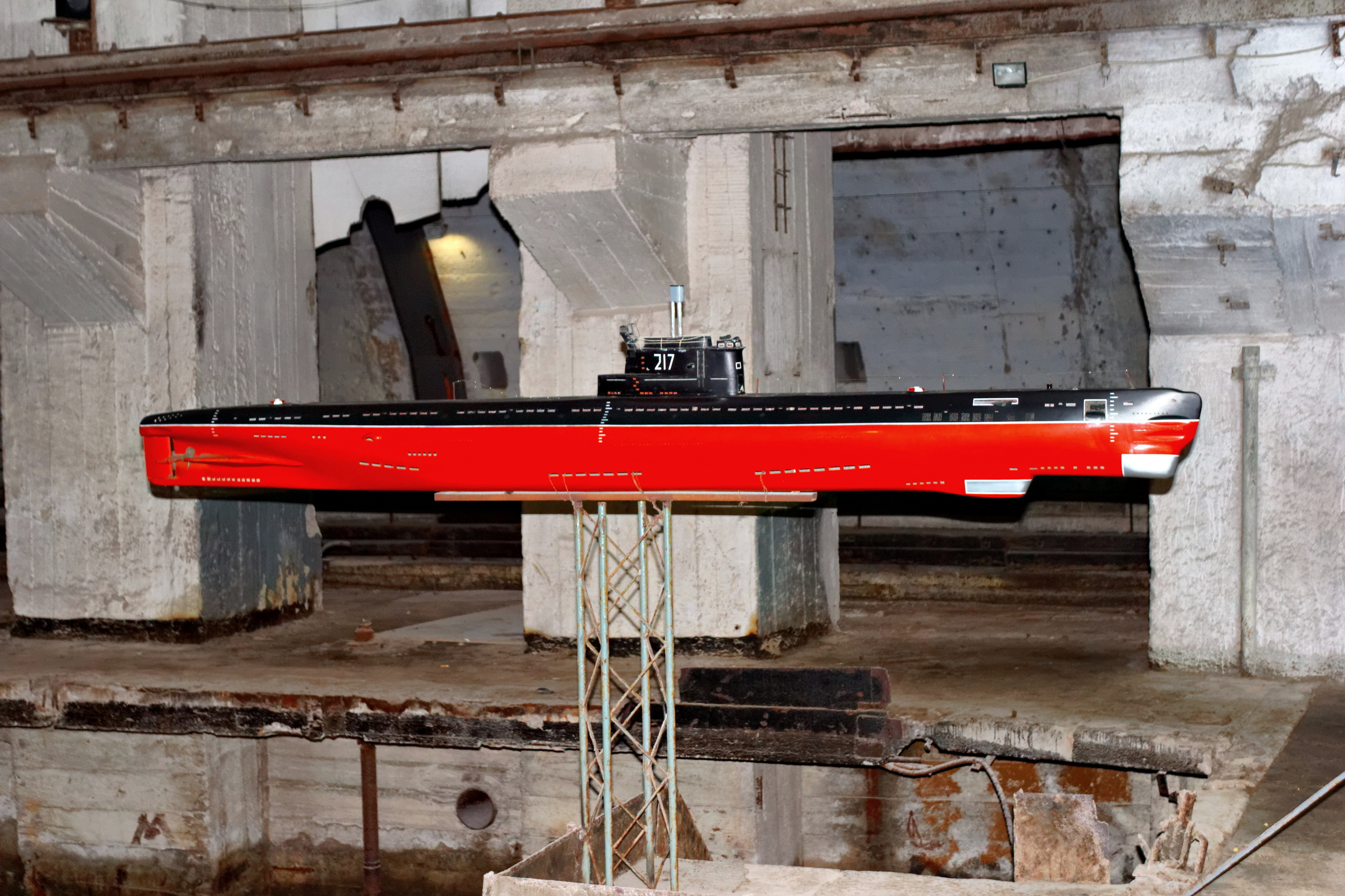 Balaklava. Naval museum complex (Object 825 GTS). Model submarine of Project 613